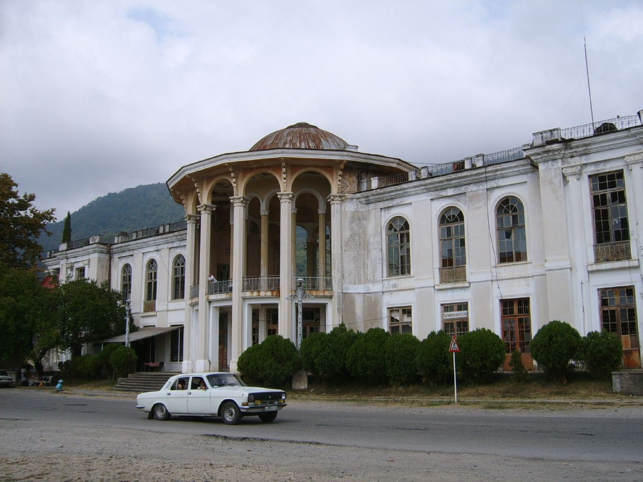 Railway station in New Athos, Abkhazia